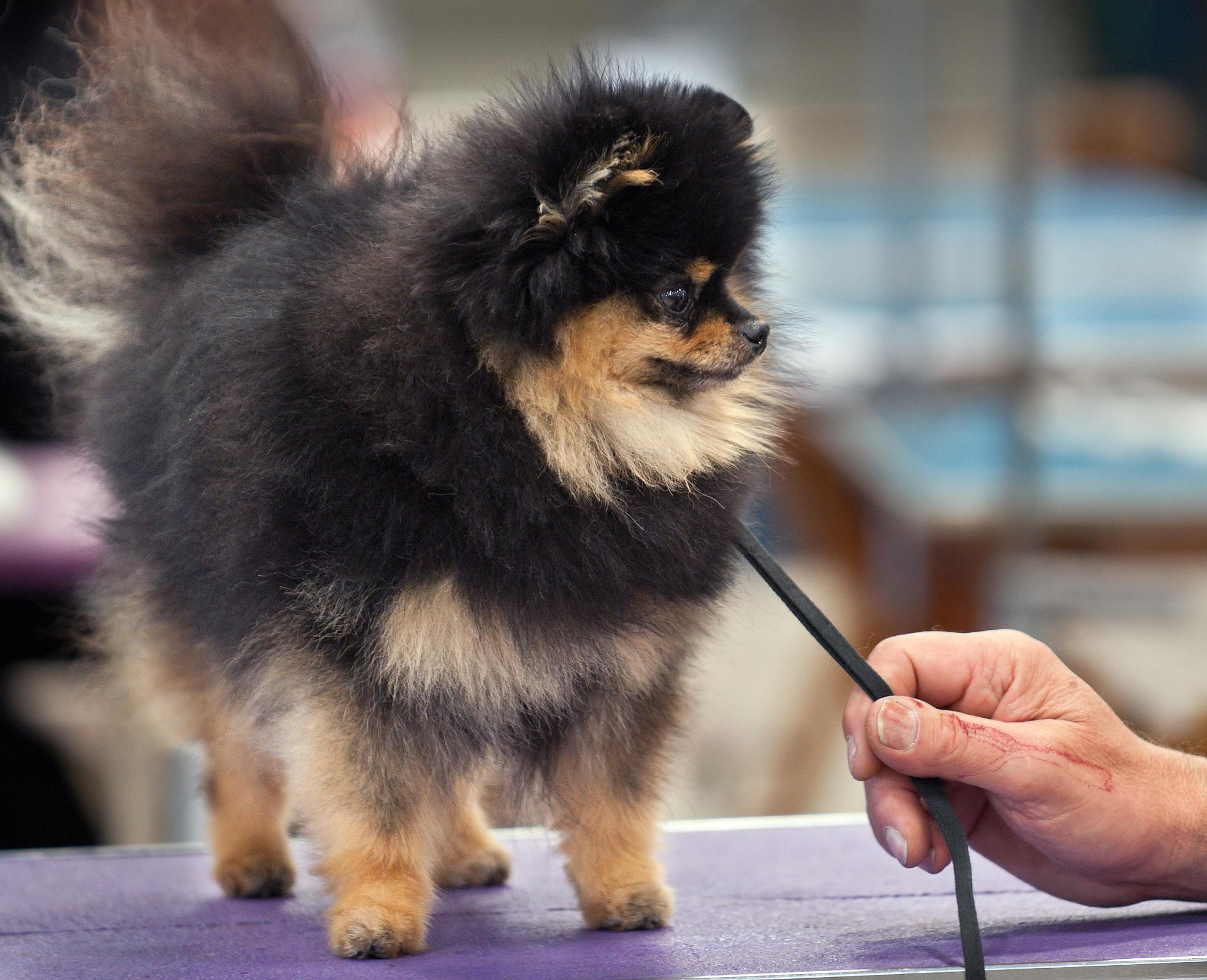 AKC Helena Fall Dog Show 2011